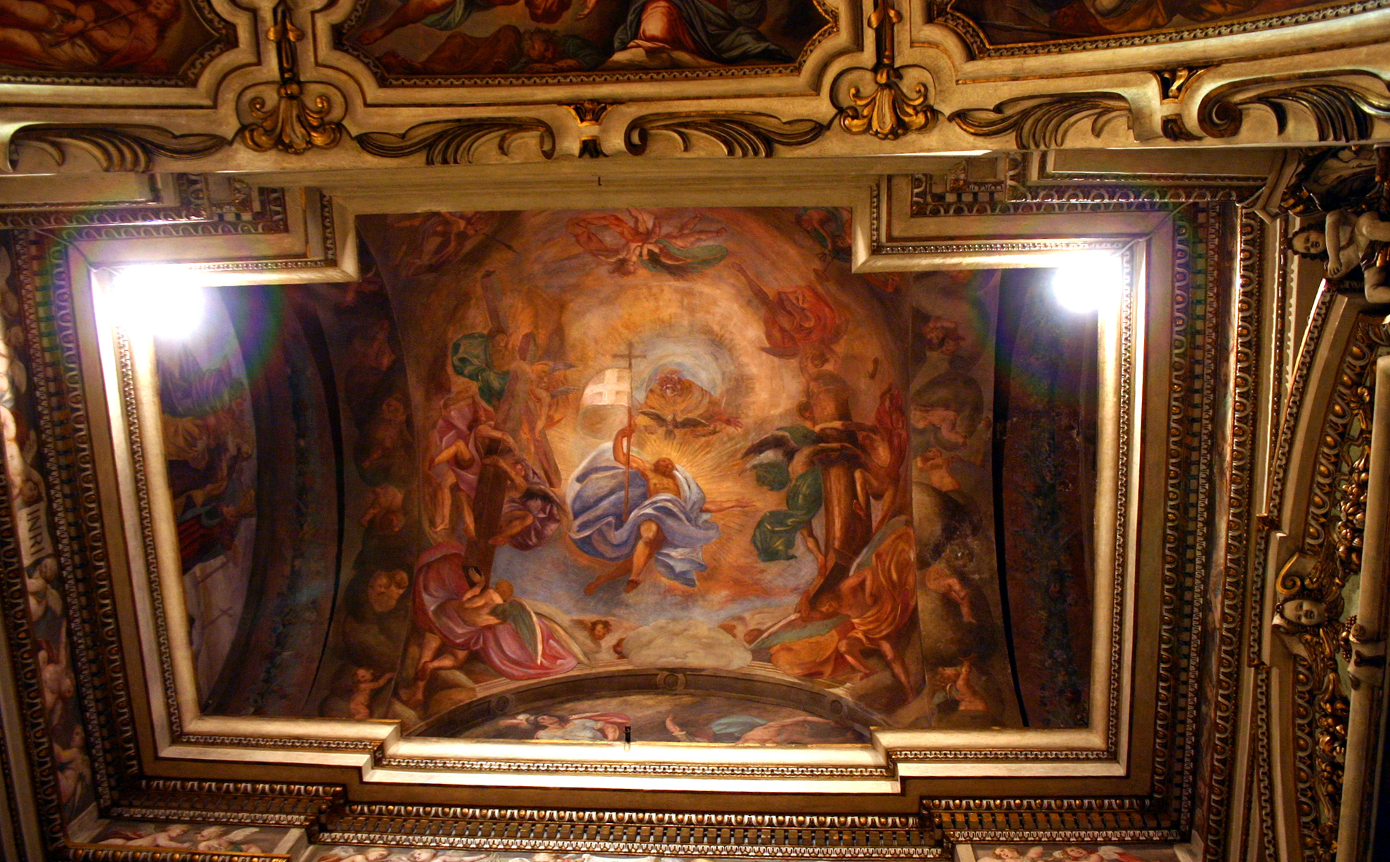 Luigi Pellegrino Scaramuccia, known as "il Perugino" (1621-1680), Resurrection of Christ. Fresco on the ceiling of the Pietà chapel, in the left hand transept of Saint Mark church in Milan (Italy). Picture by Giovanni Dall'Orto, April 14 2007.